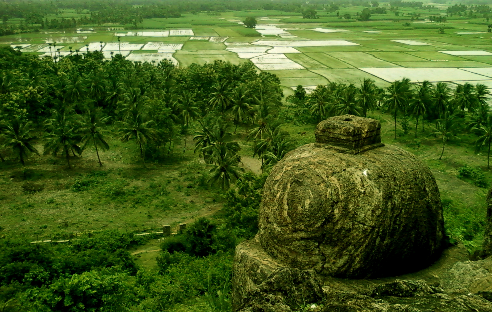 A Scenic view of paddy fields on the background, a rock cut stupa in the foreground at Bojjannakonda Monastic ruins, Sankaram